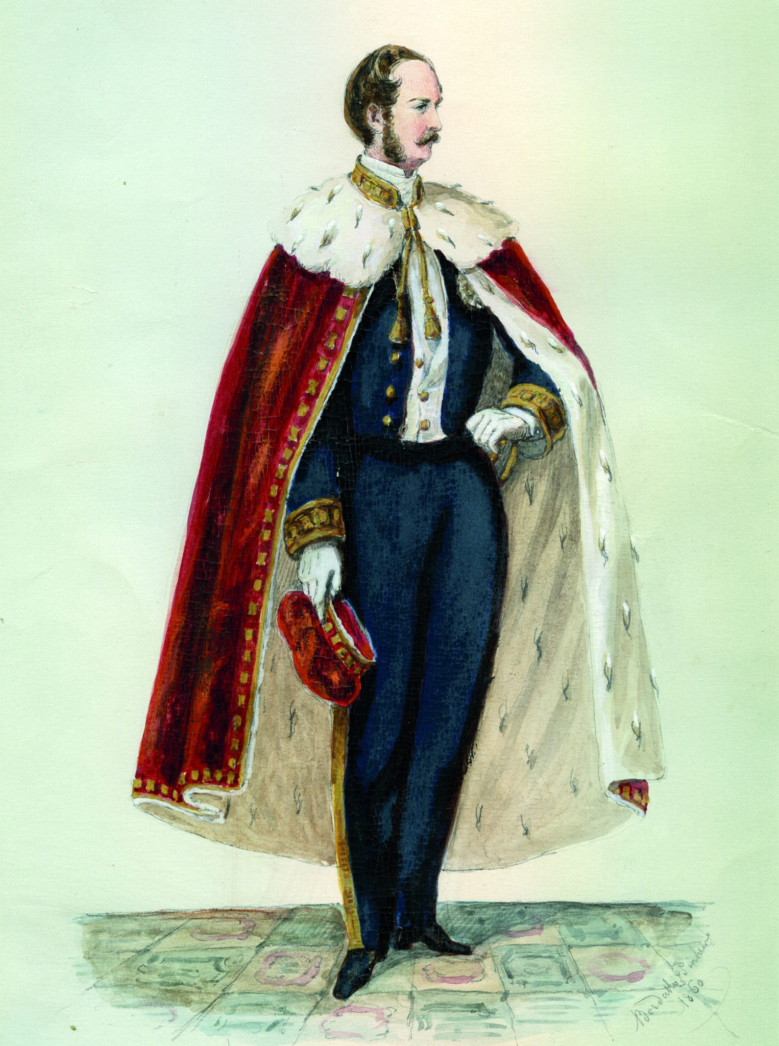 Uniform of the Peers of the Realm. 1860 watercolor by Manuel Maria Bordalo Pinheiro.